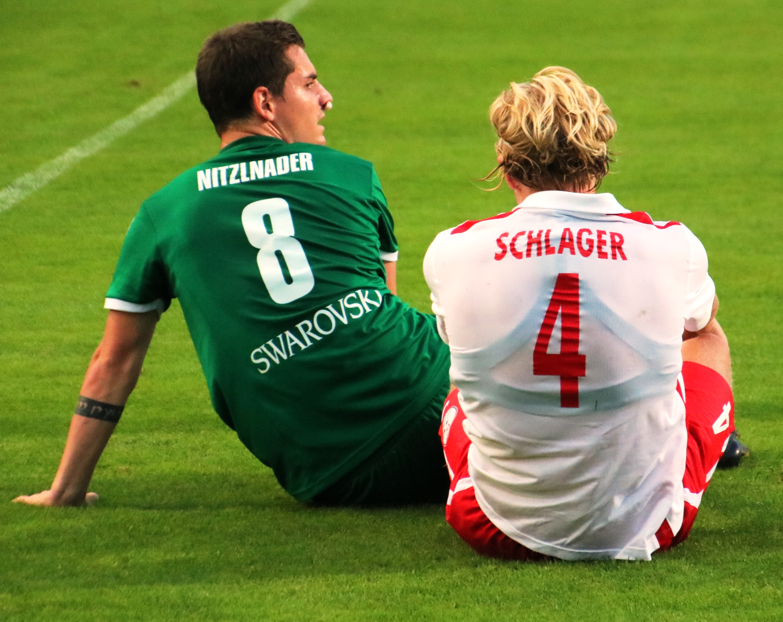 league match Austria 2nd league